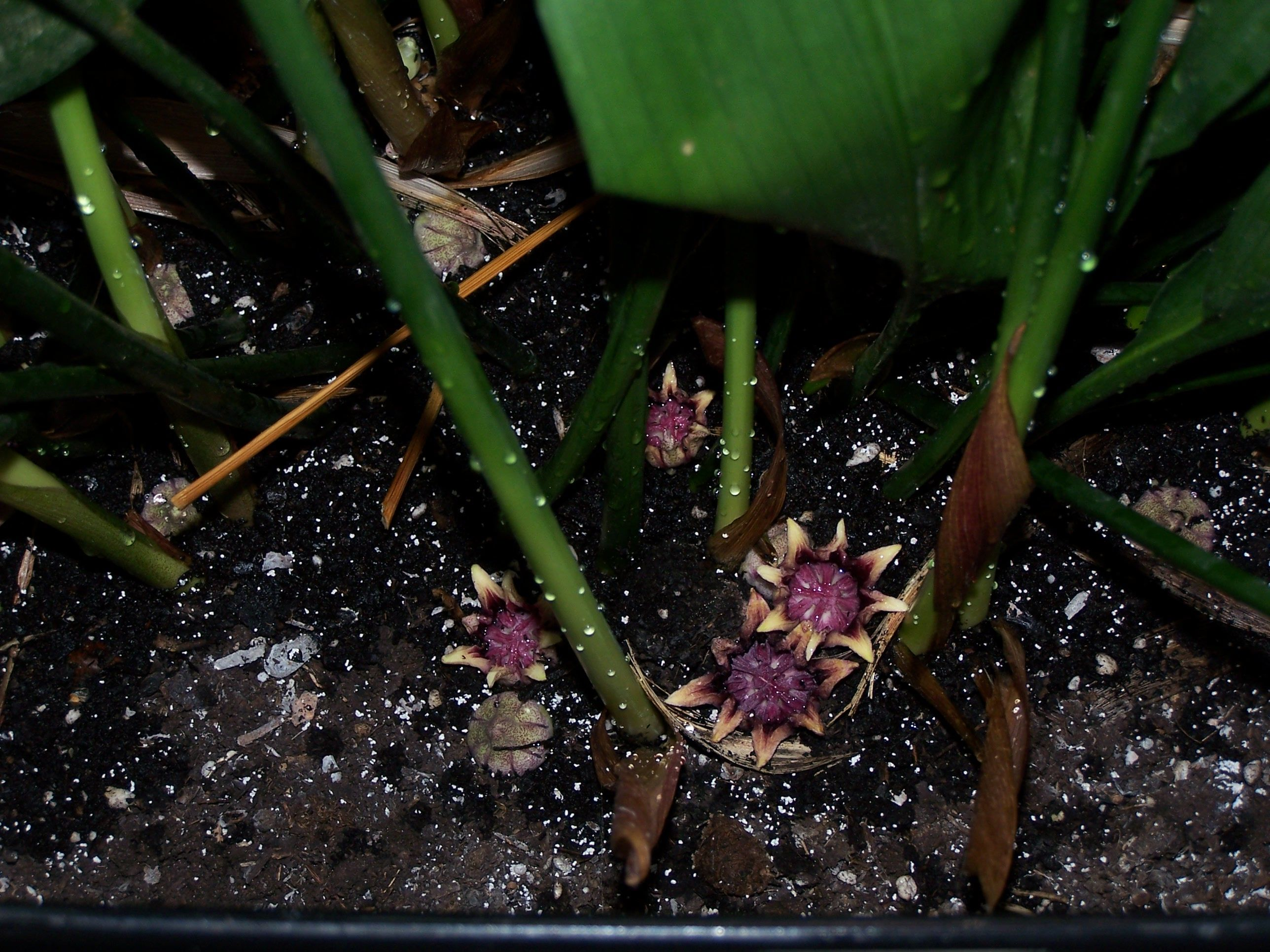 Aspidistra eliator in pot, plant ca. 50 years old, flowering